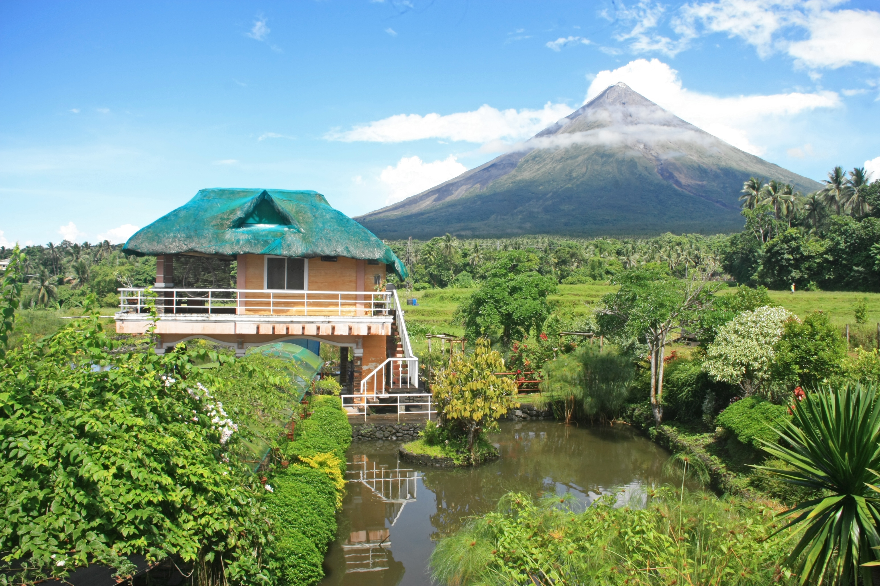 A view of Mayon Volcano